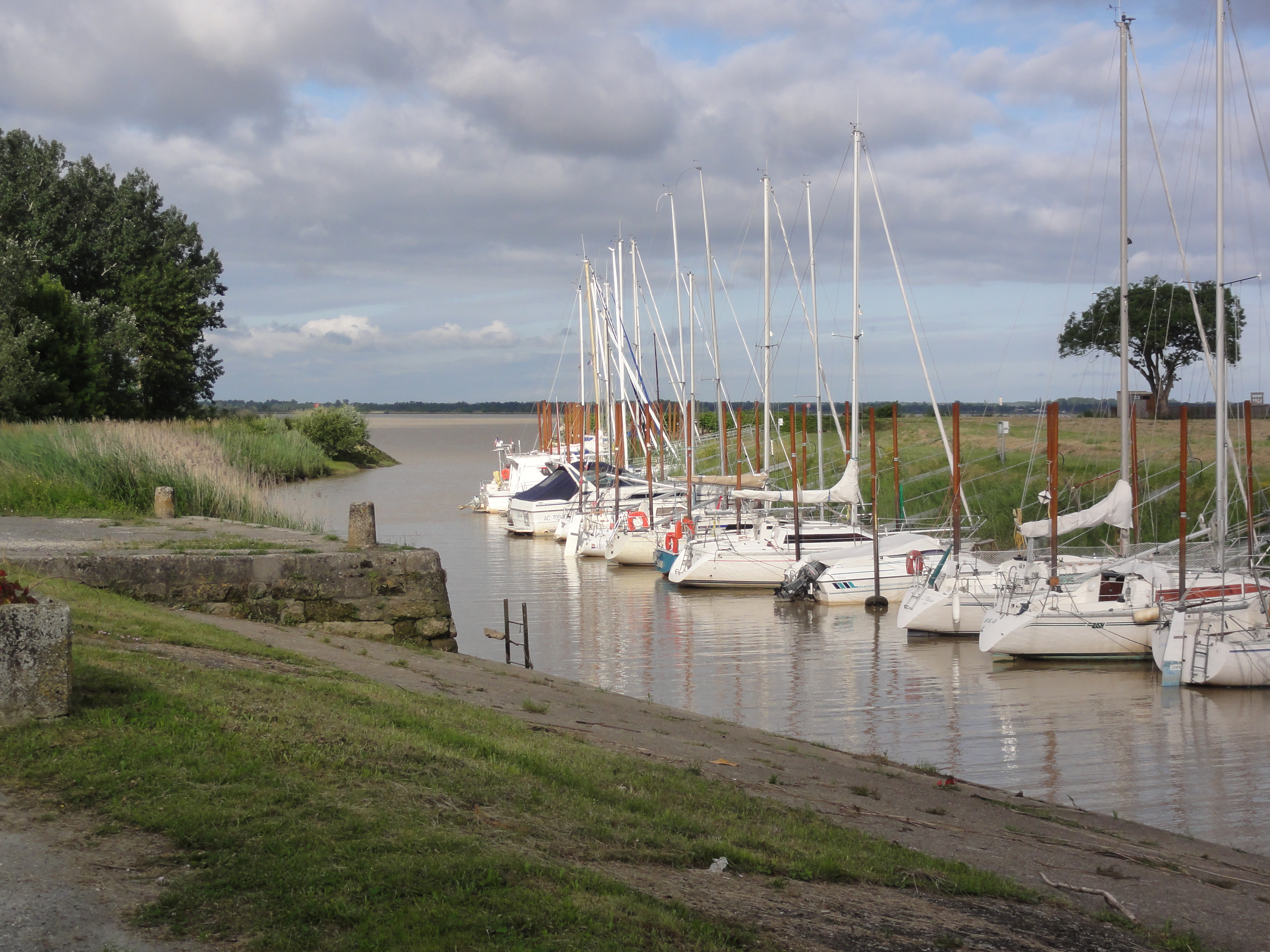 Plassac (Gironde) port sur la Gironde